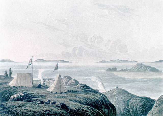 View of the Arctic Sea, from the Mouth of the Copper Mine River, Midnight. July 20, 1821